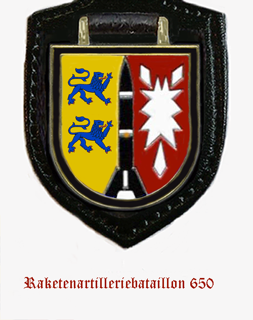 Internal coat of arms Raketenartilleriebataillon 650 (RakArtBtl 650) of the Bundeswehr (Armed Forces of the Federal Republic of Germany). → Remarks on naming and categorization scheme